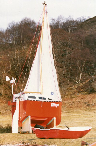 Giltspur - Tom McClean's Record Breaking Boat. Pictured here in 'retirement' at the Ardintigh Adventure Centre, Loch Nevis, Mallaig, SCOTLAND. Note the broken mast.